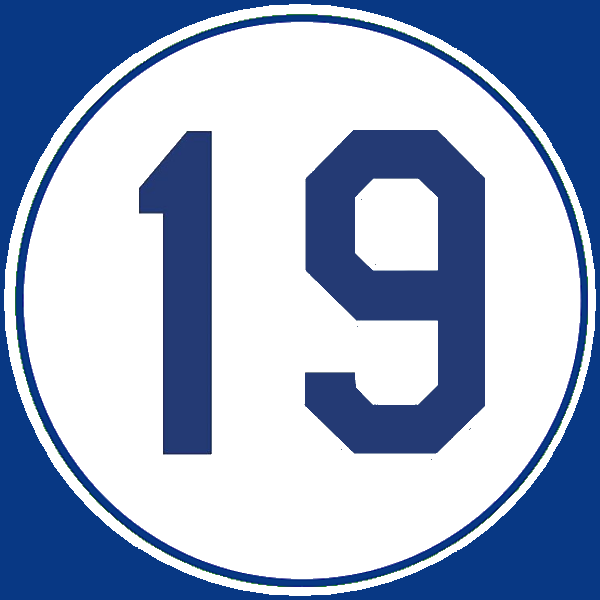 Jim Gilliam